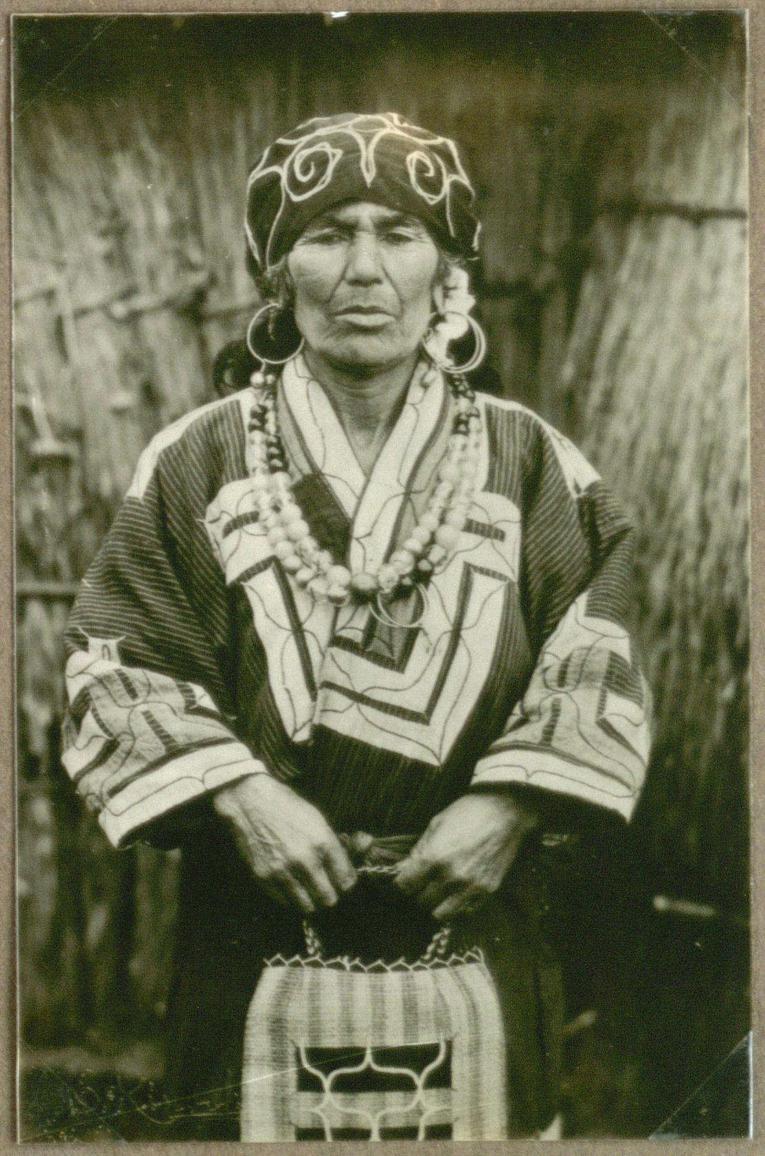 Photographer: S. Kinoshita 1937. es_b_00528b